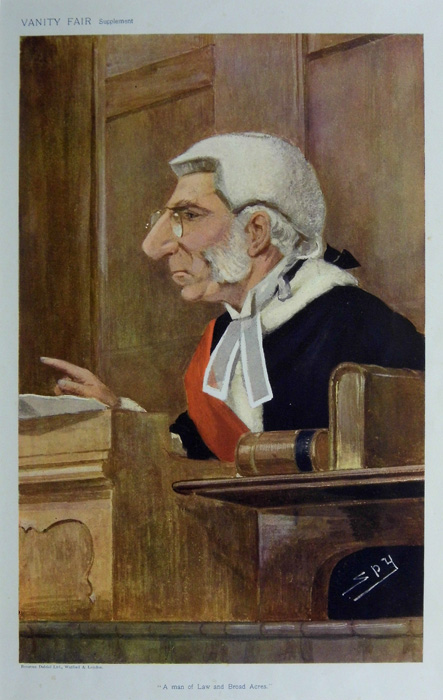 Men of the Day No.1036: Caricature of Mr Justice Reginald More Bray. [1]. Caption reads: "A man of Law and Broad Acres"